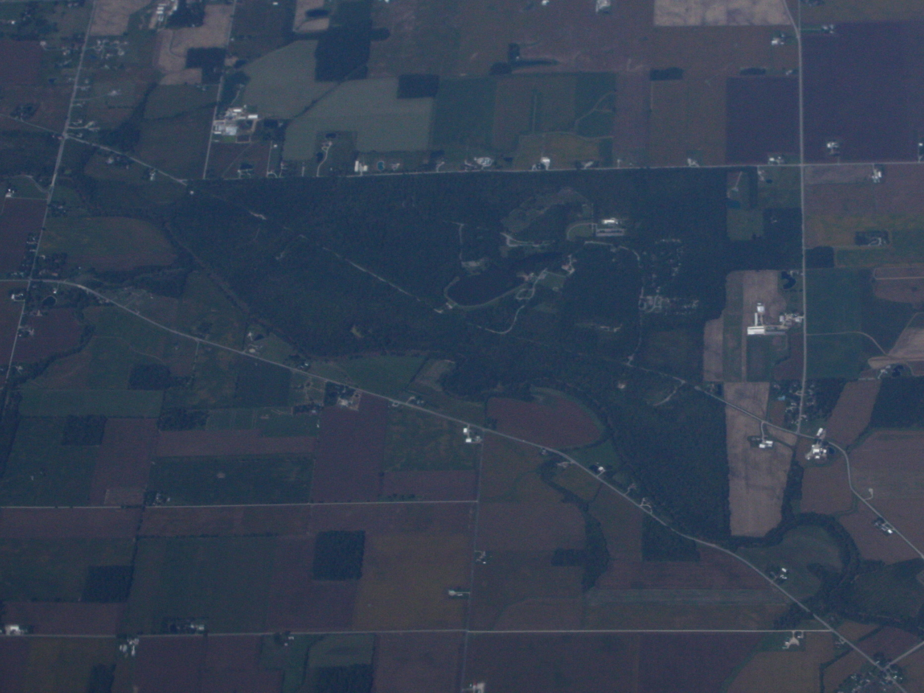 Oblique air photo of Ouabache State Park, Indiana, facing north. Brightness and contrast adjusted from original.